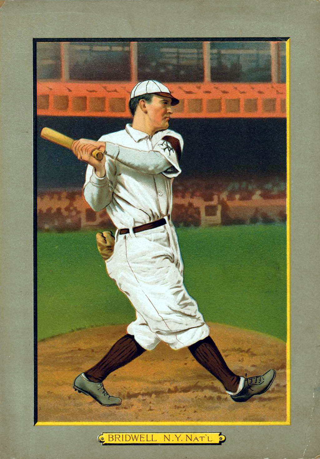 Card issued by the American Tobacco Company depicting Albert Henry Bridwell (1884-1969), baseballer who played for the a number of teams in the early 1920s, most notably the New York Giants, when the team was managed by John McGraw. Bridwell hit the single which led to the crucial "Merkle boner" running error of the 1908 season against the Chicago Cubs. He batted left-handed, and threw righty.